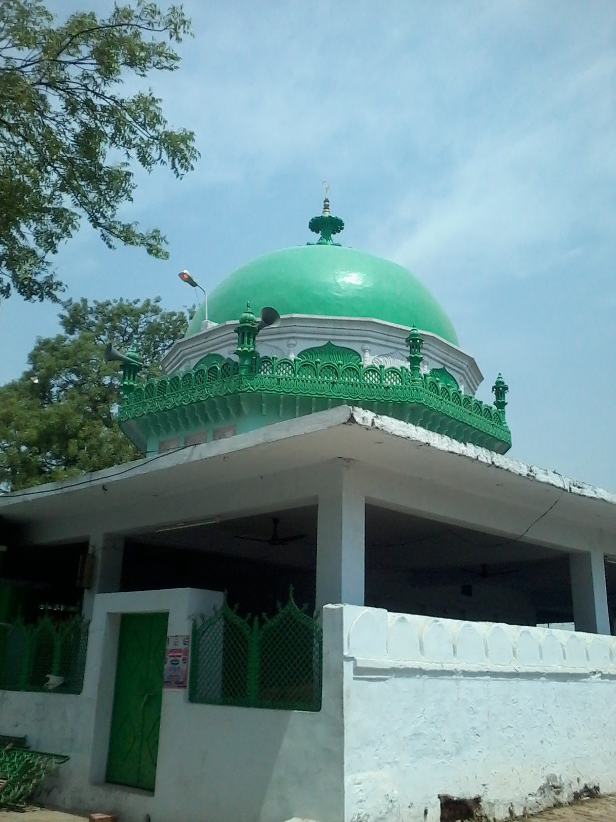 tomb of Syed Afzaluddin Abu Zafar Ameermaah Bahraichi located in Chandpura Bahraich